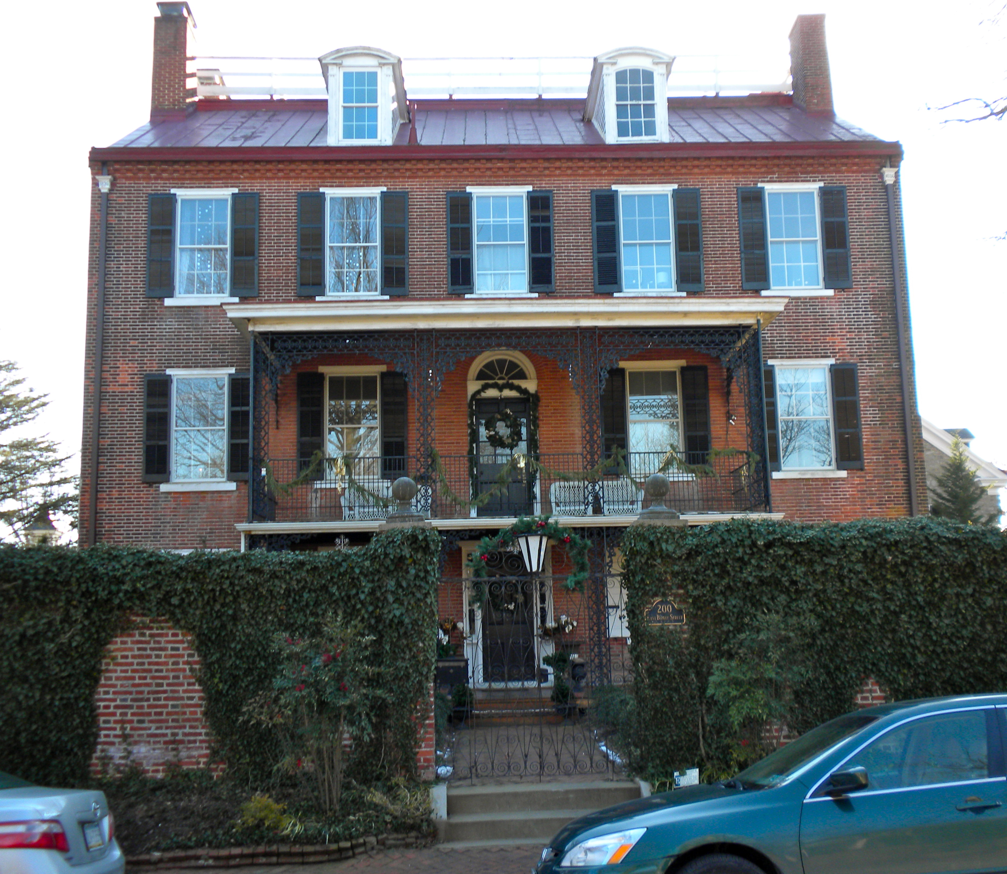 West Chester Boarding School for Boys, 200 East Biddle Street, West Chester, PA. On the NRHP. I donate this photo to the public domain.